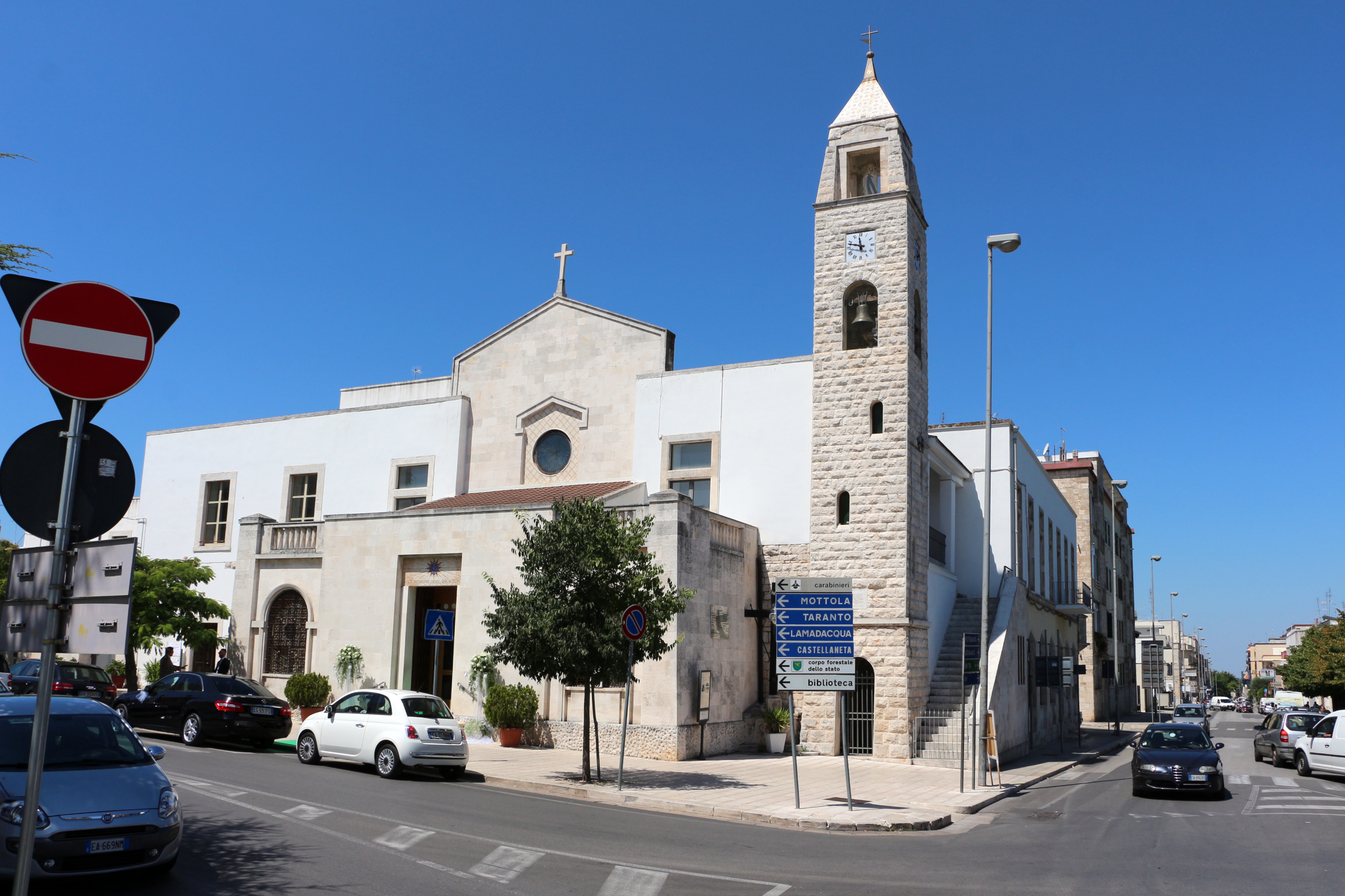 Noci, Italy